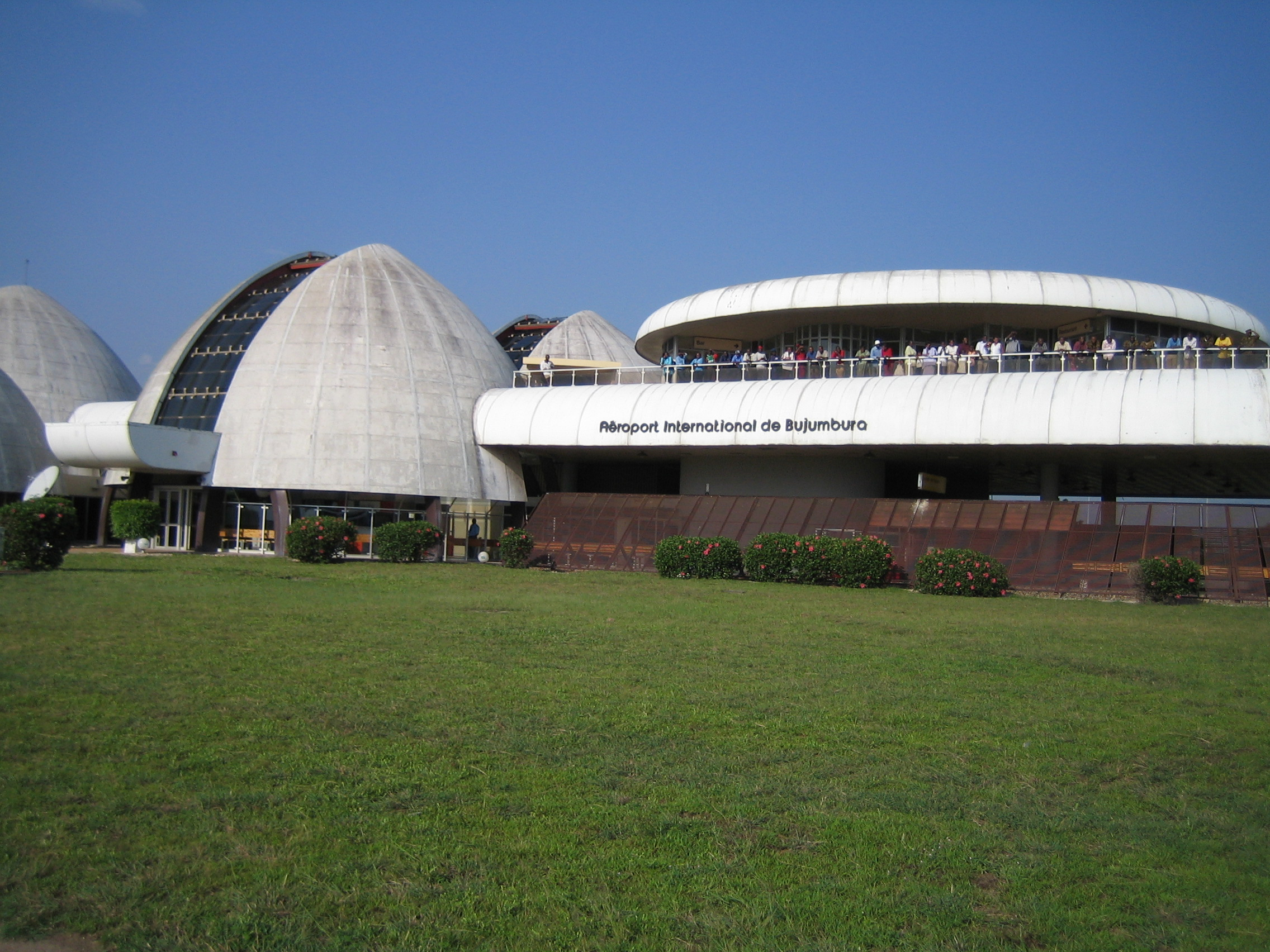 Bujumbura International Airport (HBBA) terminal in Bujumbura, Burundi